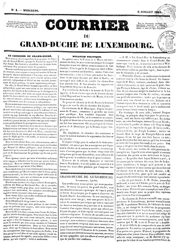 Front page of first edition of Courrier du Grand-Duché de Luxembourg, a bi-weekly newspaper published in Luxembourg between 1844 and 1868.